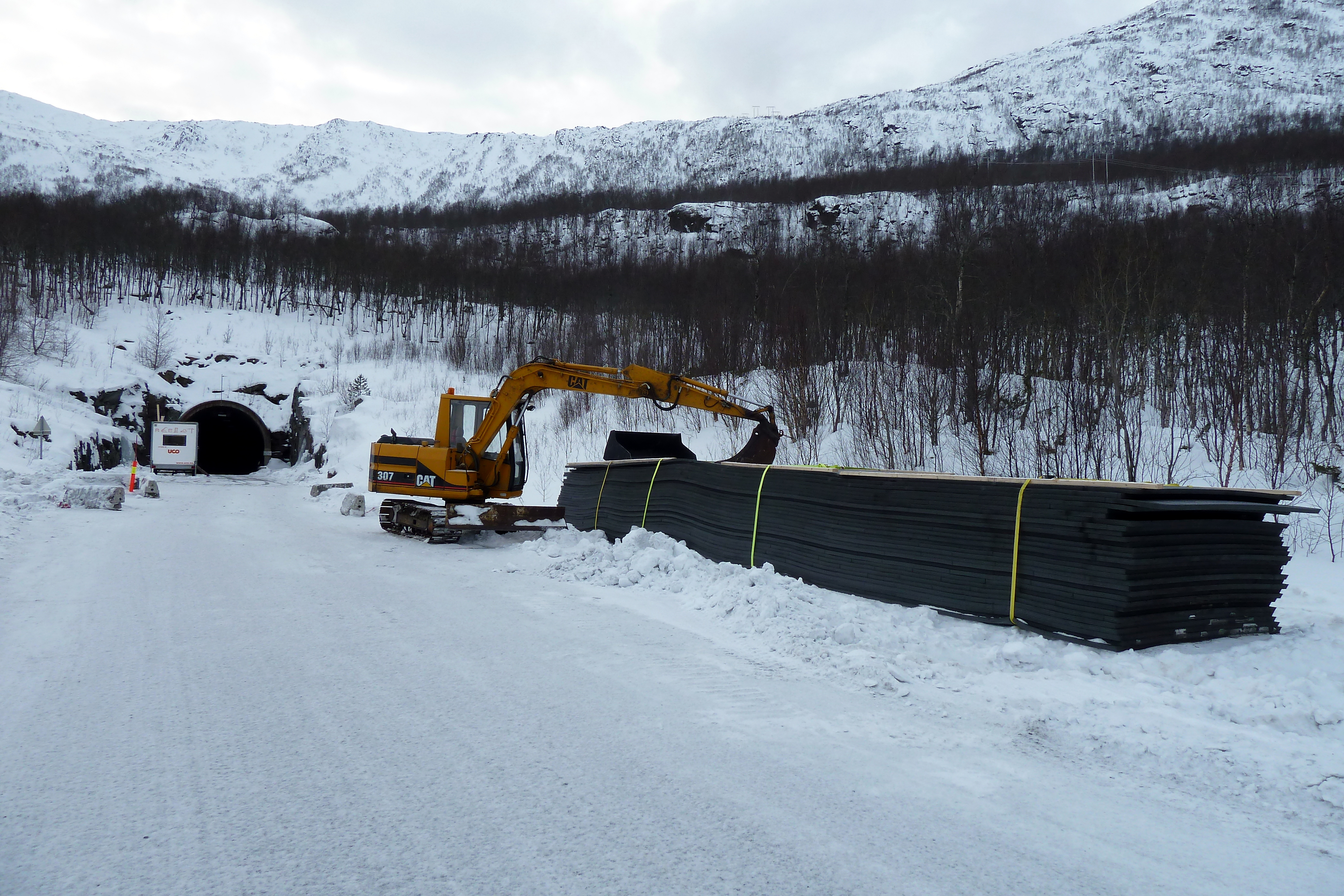 Country Road 827 (Nordland, Norway) is closed by the Brattlitunnel due to a fire in january 2013. Picture is taken on the north side of the tunnel in february. Most of the activity going on to re-open the tunnel is at the opposit side.